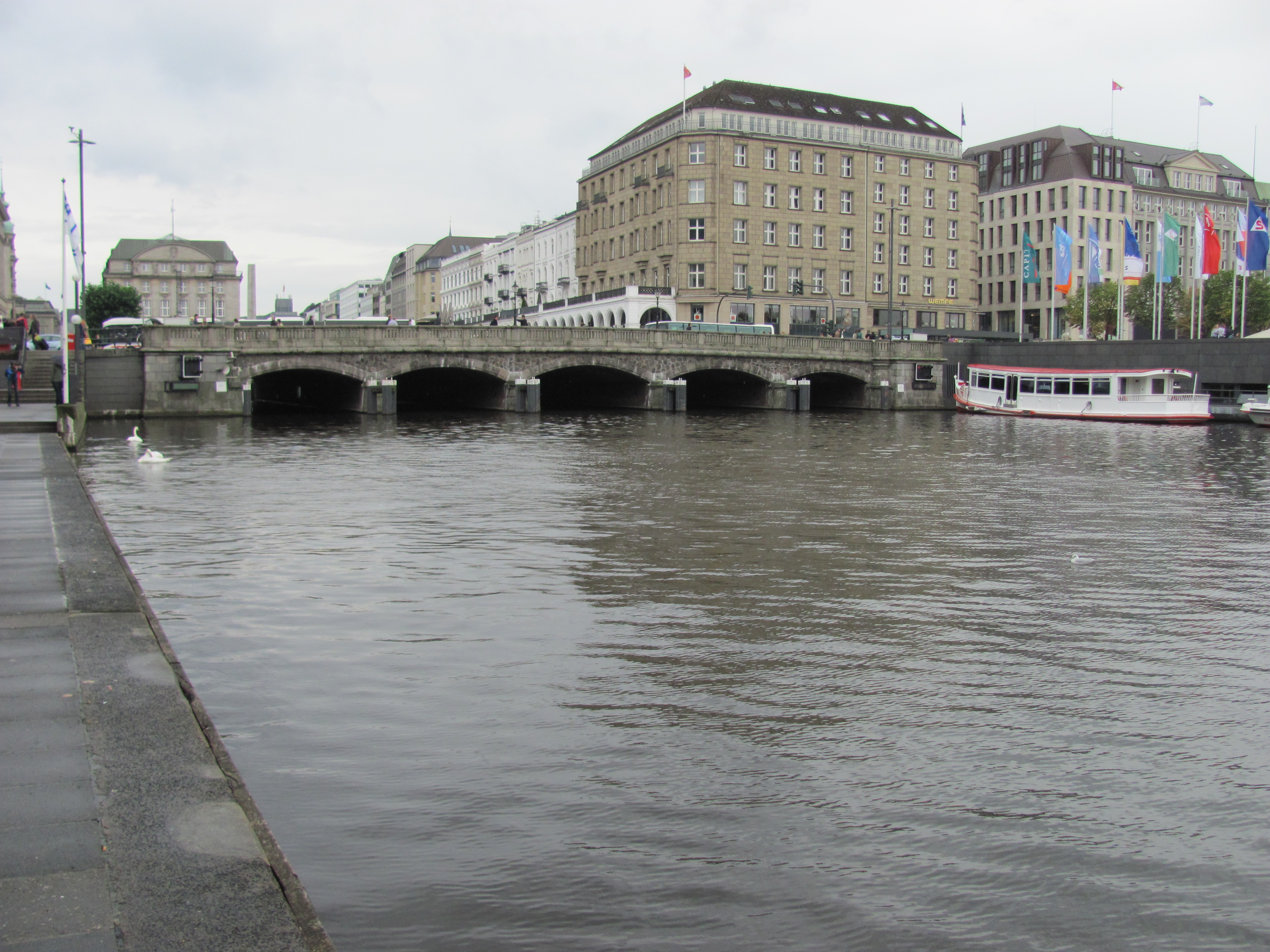 Reesendammbrücke in Hamburg, Germany